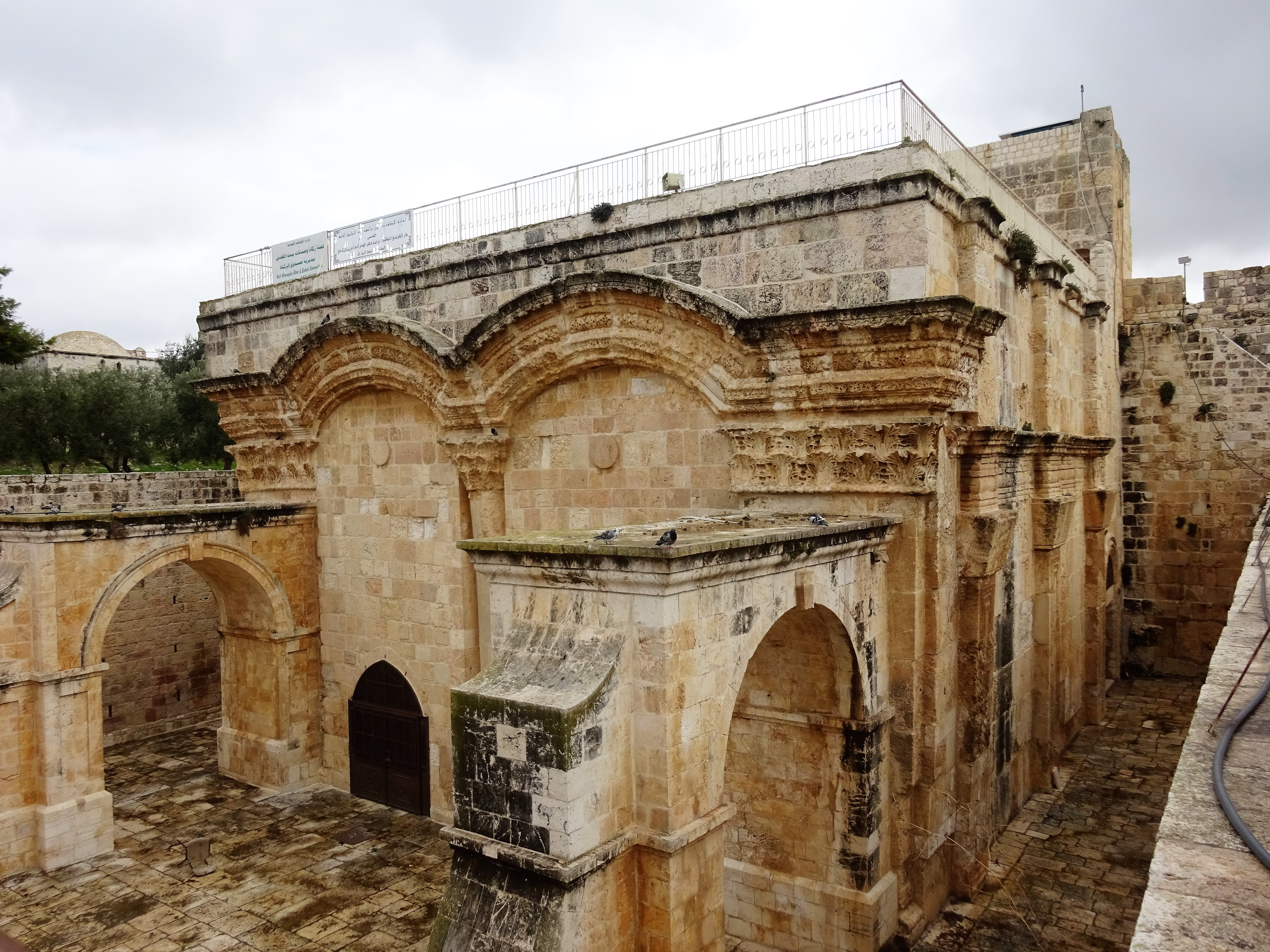 The Golden Gate as seen from the Temple Mount